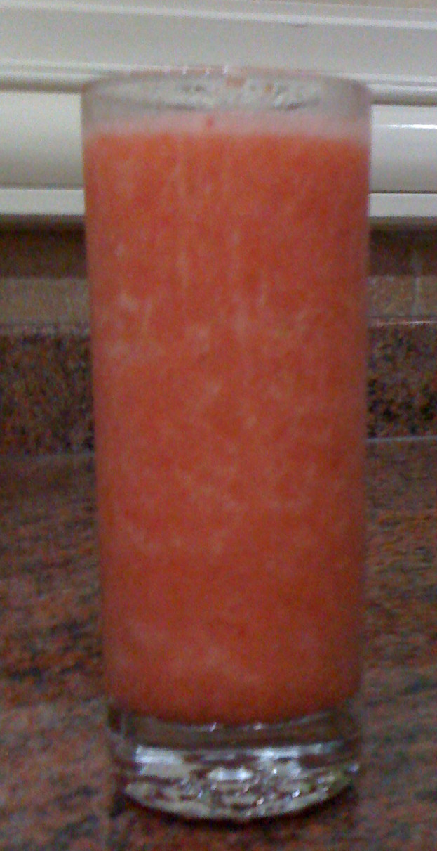 Strawberry Juice